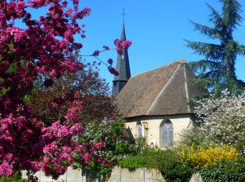 Church